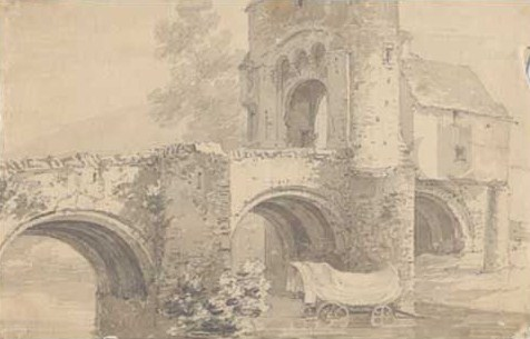 The Monnow Bridge, Monmouth (engraving of a pencil and wash original)